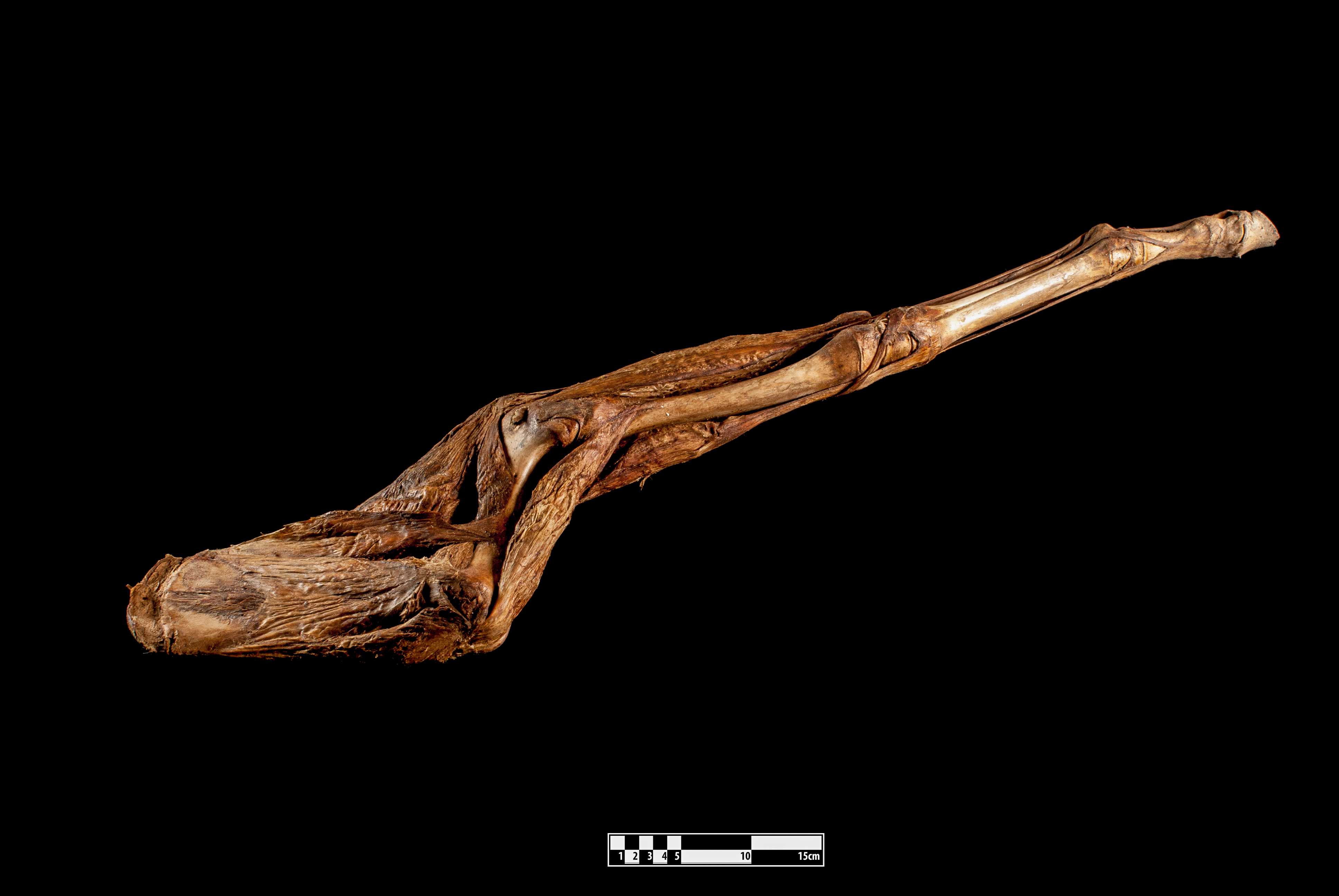 Equine forelimb. Equus Technique of dehydration - piece showing muscles and bones of the equine forelimb on display at the Museum of Veterinary Anatomy FMVZ USP. This file was published as the result of a partnership between the Museum of Veterinary Anatomy FMVZ USP, the RIDC NeuroMat and the Wikimedia Community User Group Brasil. This GLAM project is reported. Photography: Museum of Veterinary Anatomy FMVZ USP. Author: Wagner Souza e Silva.